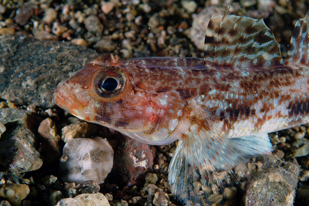 Head of Gobius geniporus. Photo by Stefano Guerrieri.